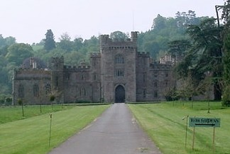 Hampton Court near Hope Under Dinmore in Herefordshire, England